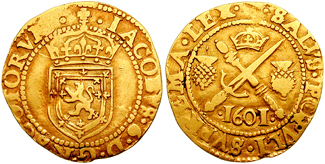 Scotland. James VI of Scotland (James I of England). 1567-1625. AV Half Sword and Sceptre (2.40 gm) (3 Scottish Pounds). Dated 1601. Crowned coat-of-arms Crossed sword and sceptre with crown and thistles; date below. Burns 2; Spink 5462. Fine. Ex-jewelry, but only minor edge marks.